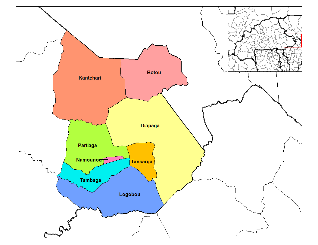 This map has been uploaded by Osiris fancy from to enable the Wikimedia Atlas of the World. Original uploader to was Rarelibra. Osiris fancy is not the creator of this map. Licensing information is below. Map of the departments of Tapoa province in Burkina Faso. Created by Rarelibra 03:37, 30 September 2006 (UTC) for public domain use, using MapInfo Professional v8.5 and various mapping resources.